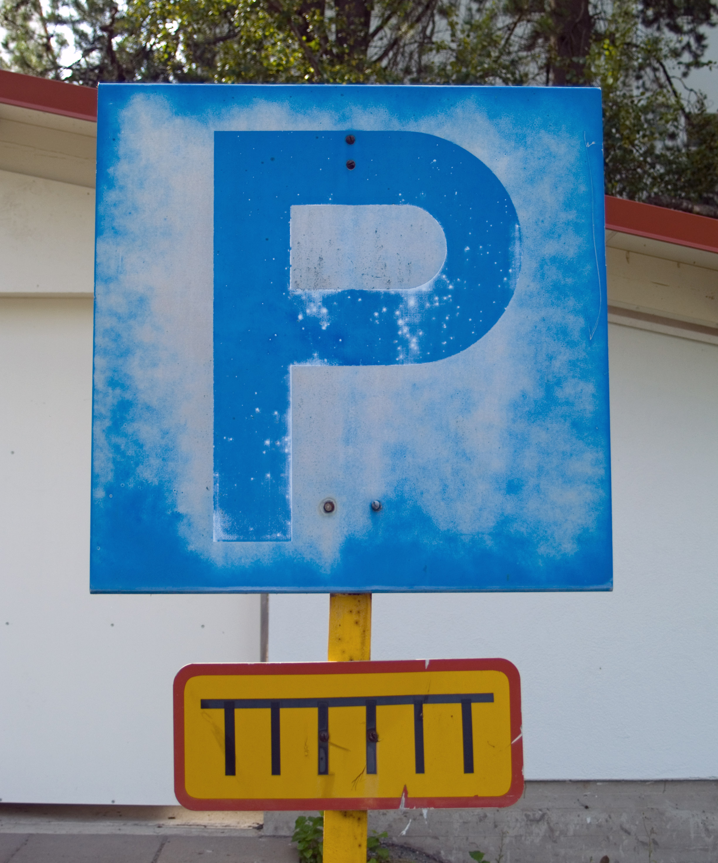 Wear by changing weather conditions has virtually reversed the colours of a traffic sign.